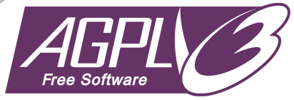 AGPL3 Logo